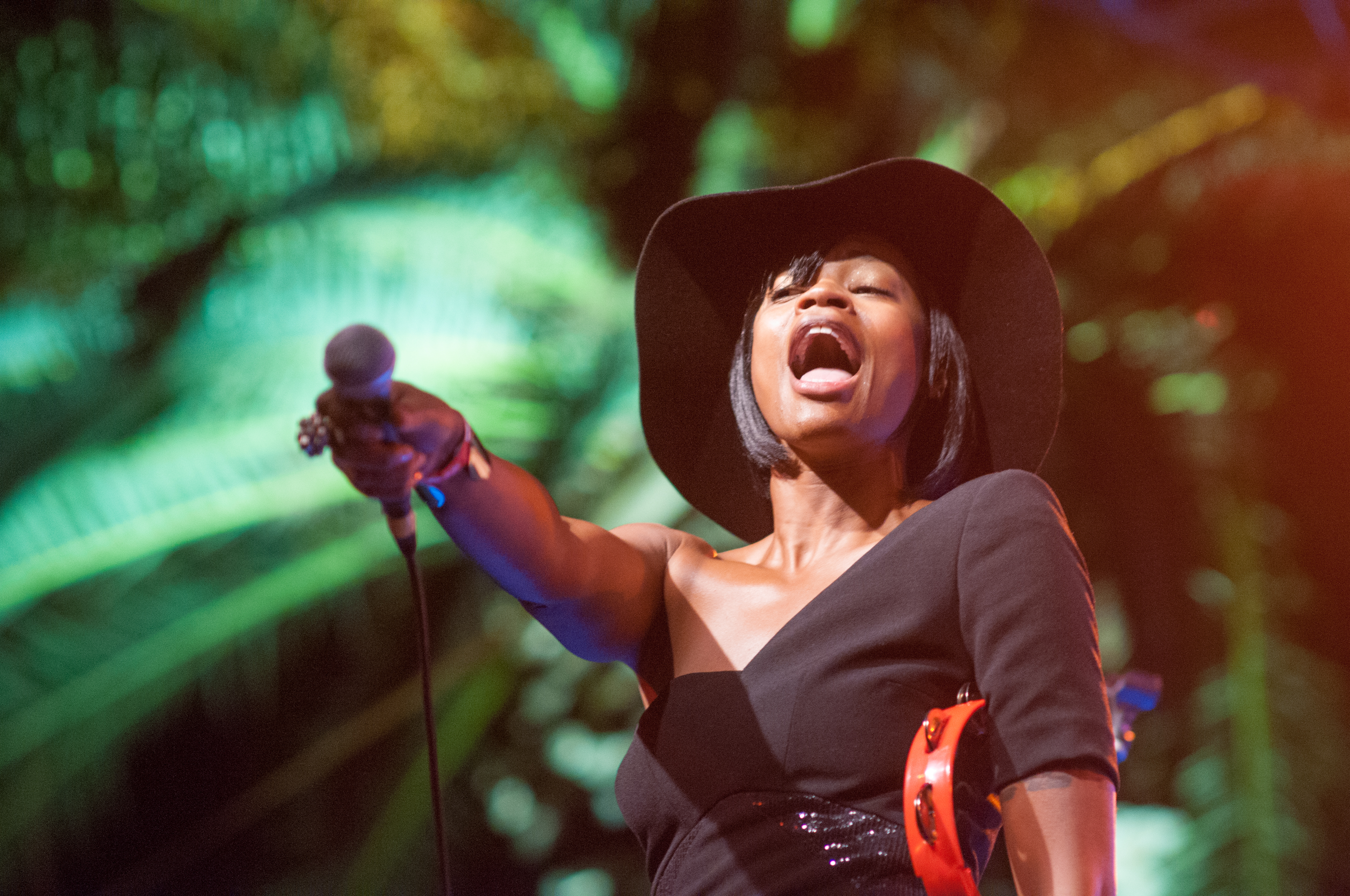 Noelle Scaggs performing with Fitz and the Tantrums in San Diego